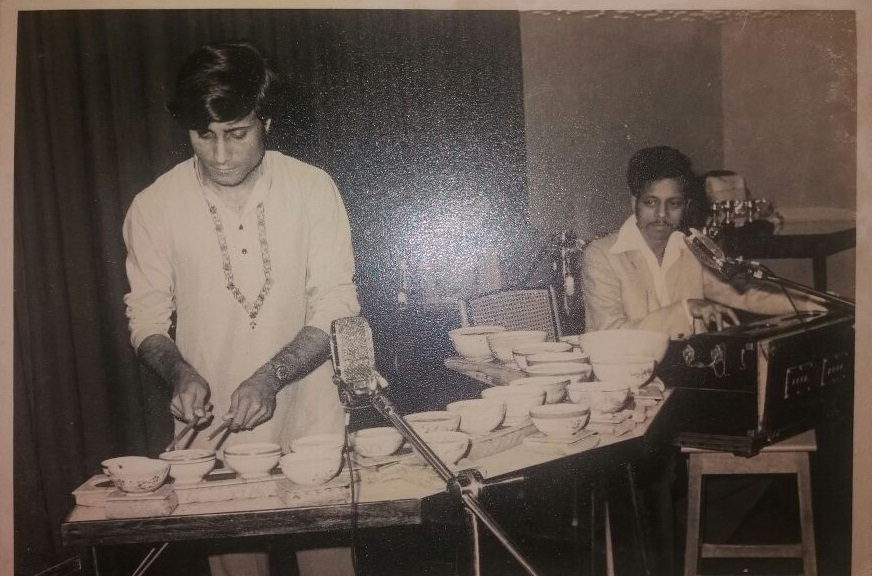 Pandit Surendra Sharma during his initial days of playing Jal Tarang